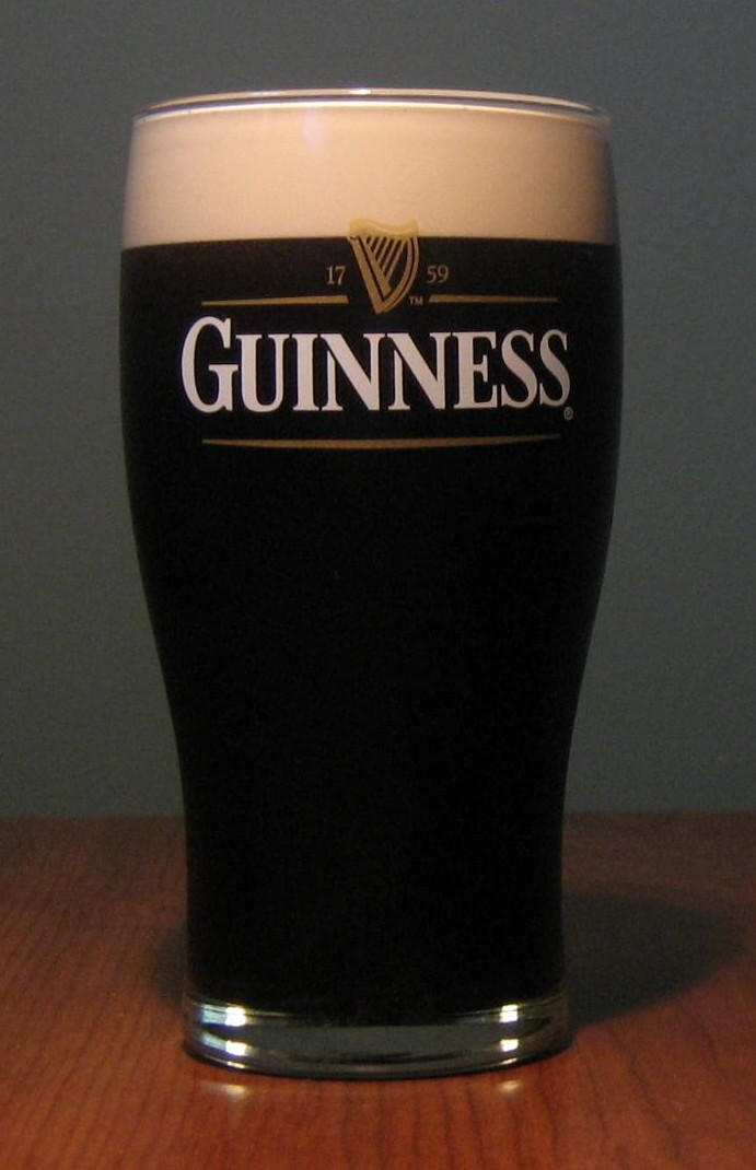 Image was :Image:GuinnessPint.jpg that I took and cropped, hence PD-self. Konk me on the head if I should have used another tag.